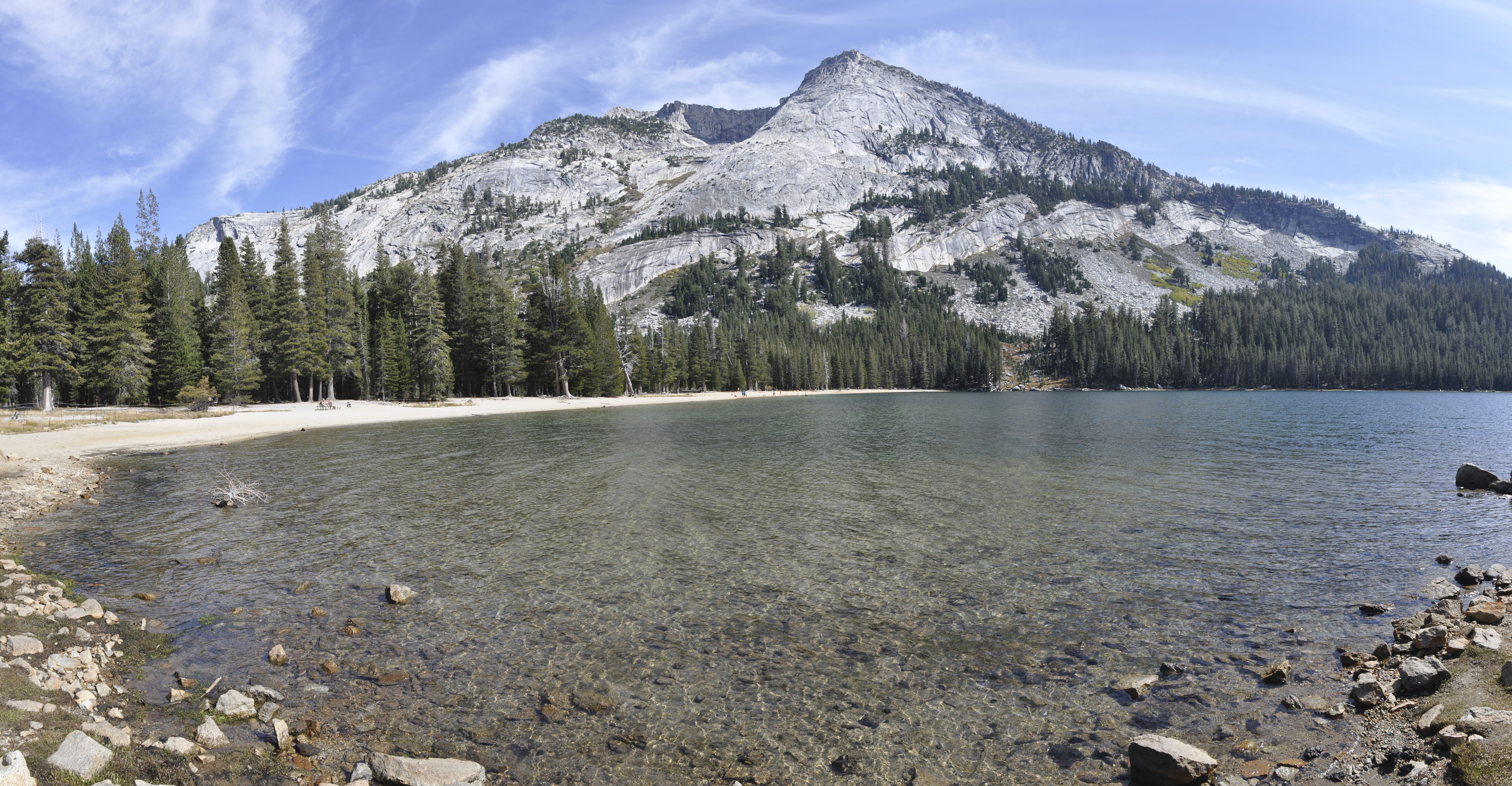 Tuolumne Meadows section of Yosemite National Park. Tenaya Lake - East Beach